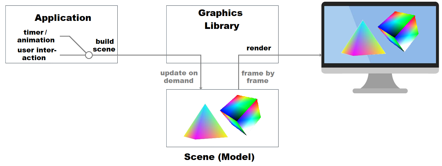 A Retail-Mode Graphics API, unlike Immediate-Mode Graphics API, stores the scene (the model) itself.